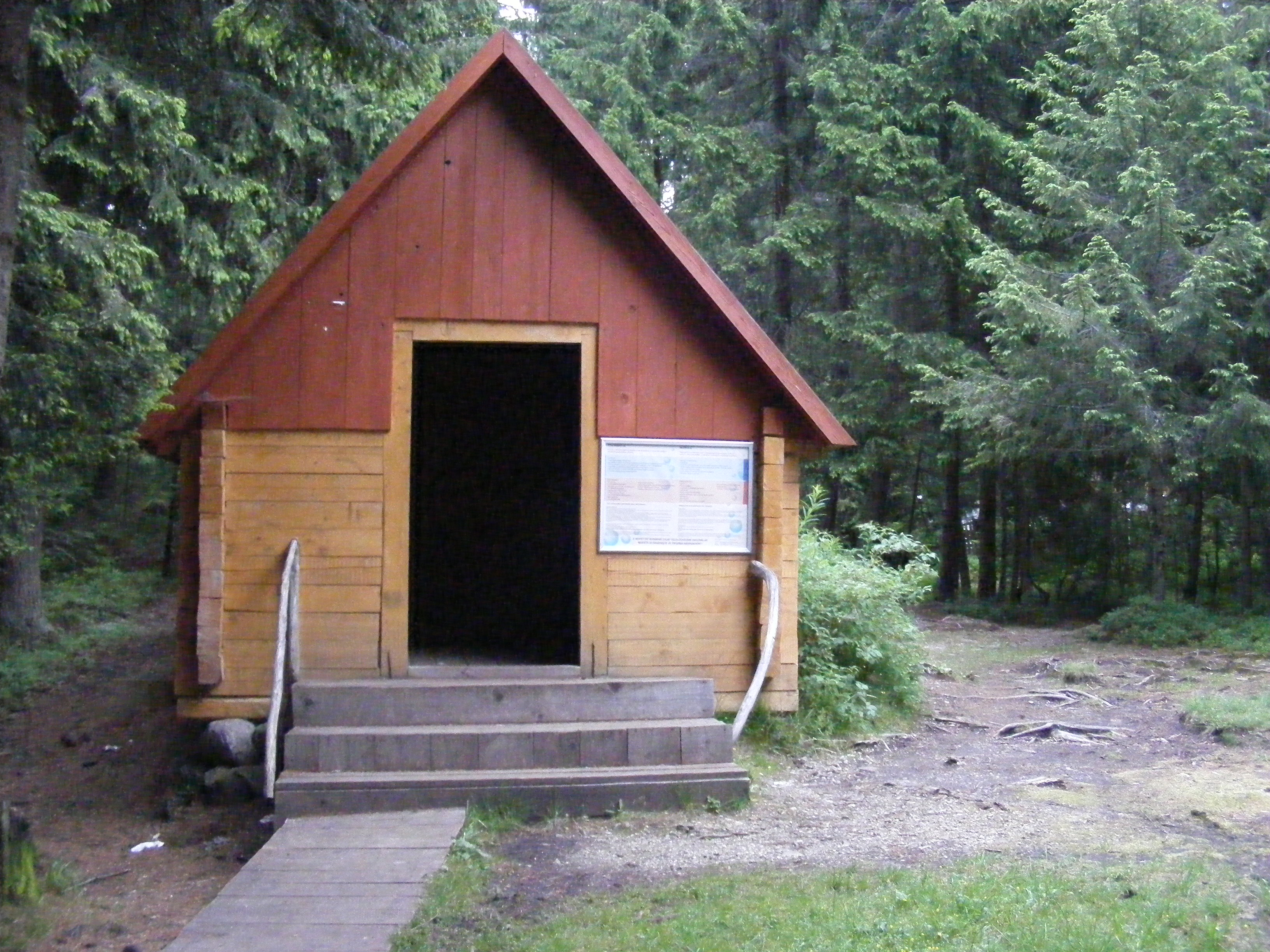 Mofetta in Sîntimbru-Băi